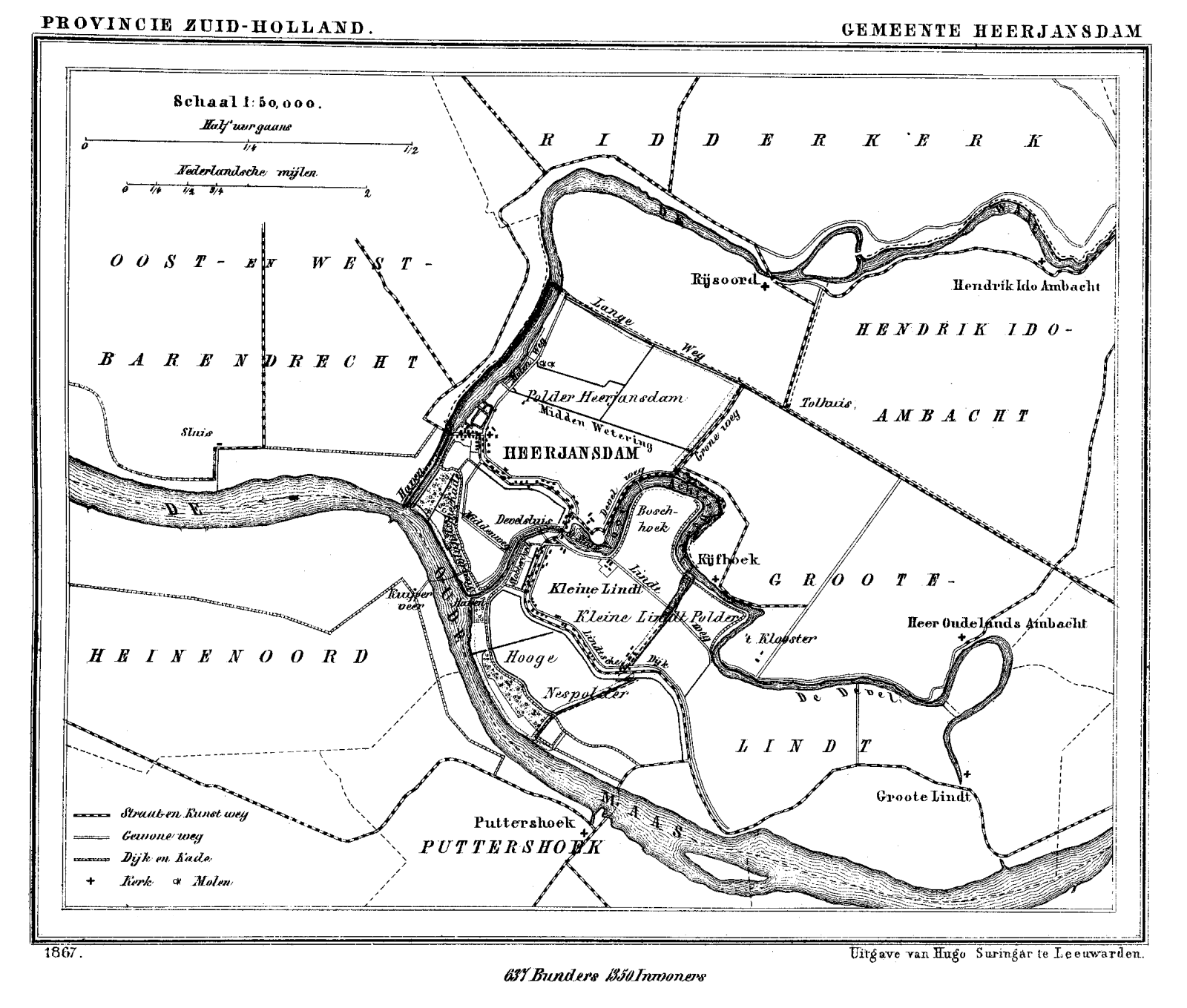 Historic map of Heerjansdam (now part of municipality Zwijndrecht), South Holland, the Netherlands